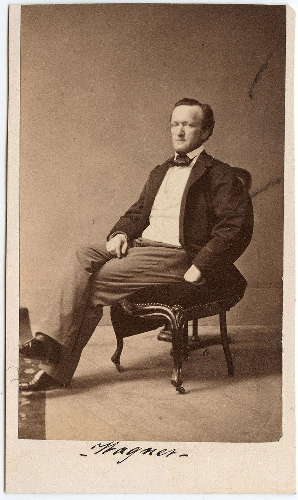 Carte-de-Visite of Richard Wagner